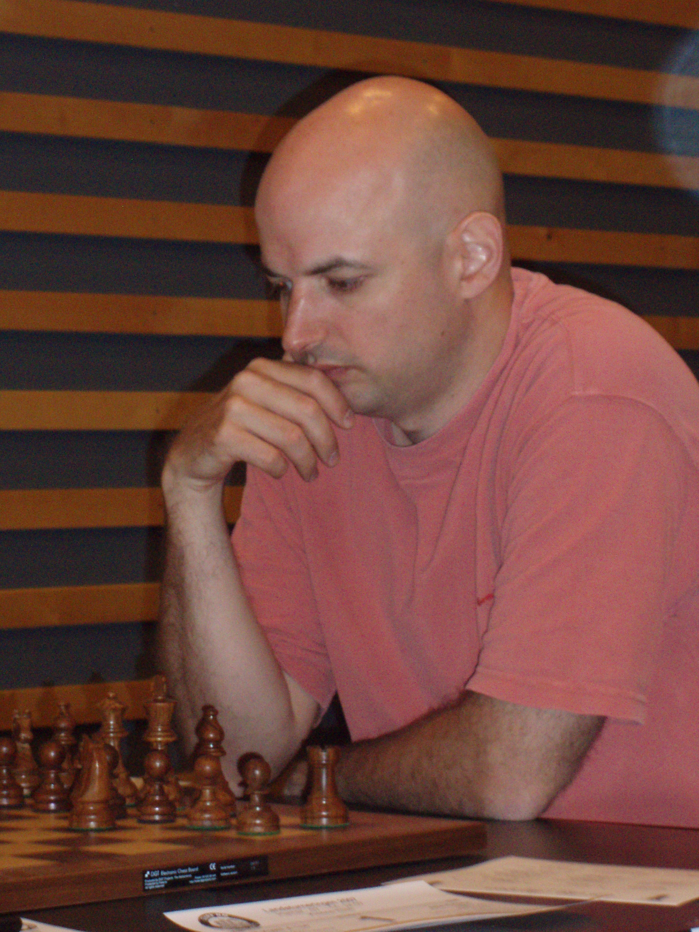 Atle Grønn at the Norwegian Chess Championship at Hamar 2007 Atle Grønn, NM på Hamar 2007